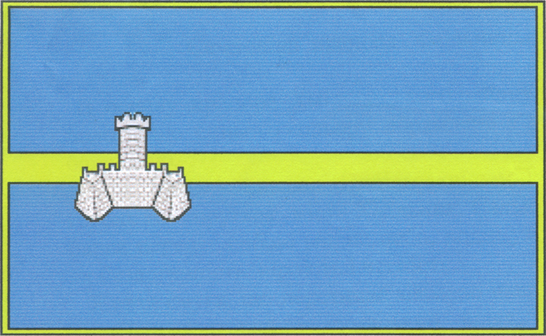 Flag of Khmilnyk Raion